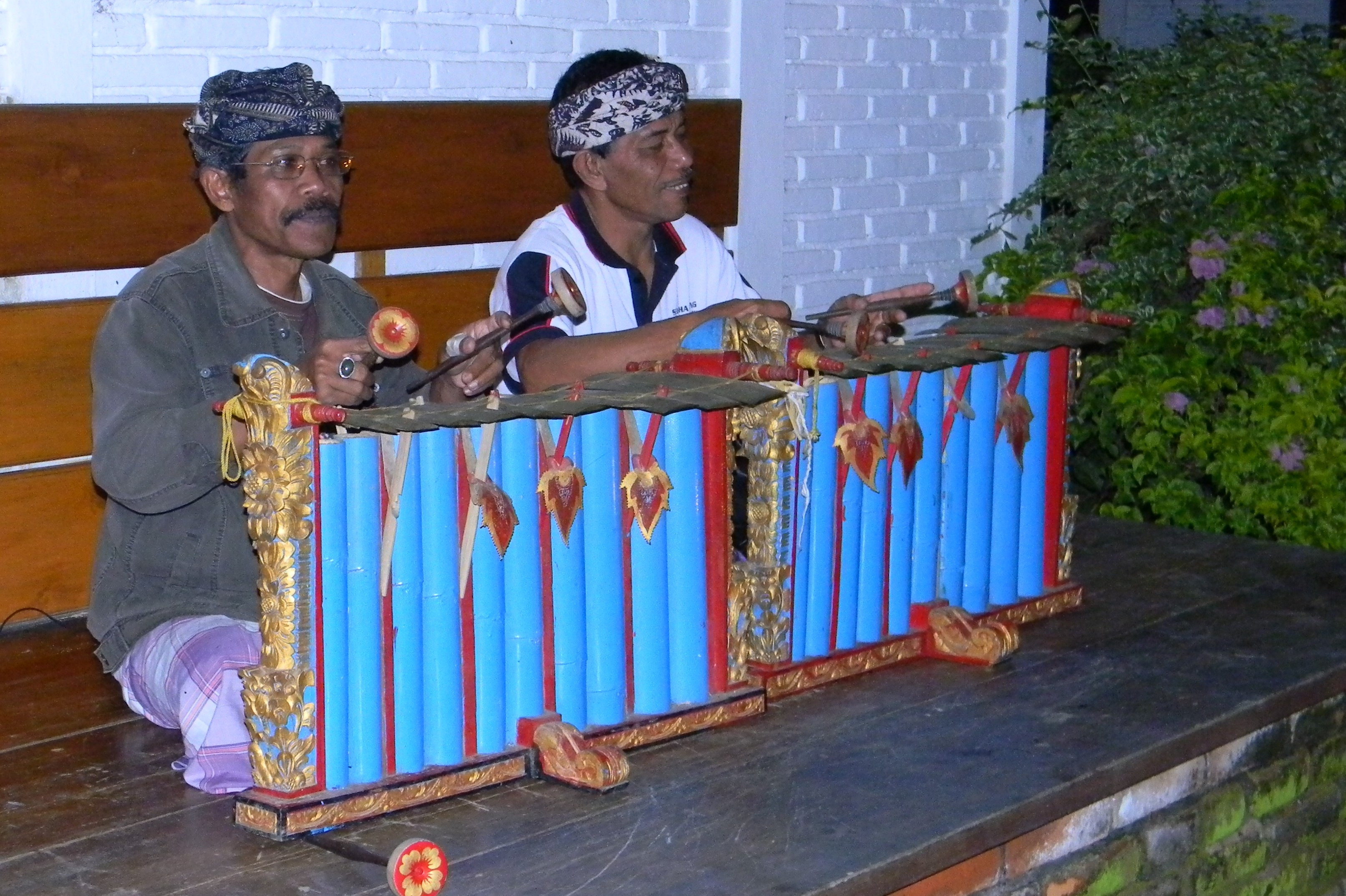 photo of gamelan gender wayang music ensemble with players Unknown